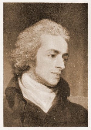 William Thomas Beckford (1 October 1760 – 2 May 1844), usually known as William Beckford, was an English novelist, art critic, travel writer and politician. He was Member of Parliament for Wells from 1784 to 1790, for Hindon from 1790 to 1795 and again from 1806 to 1820. William Thomas Beckford is the author of the Gothic novel Vathek and brainchild of the remarkable Fonthill Abbey.